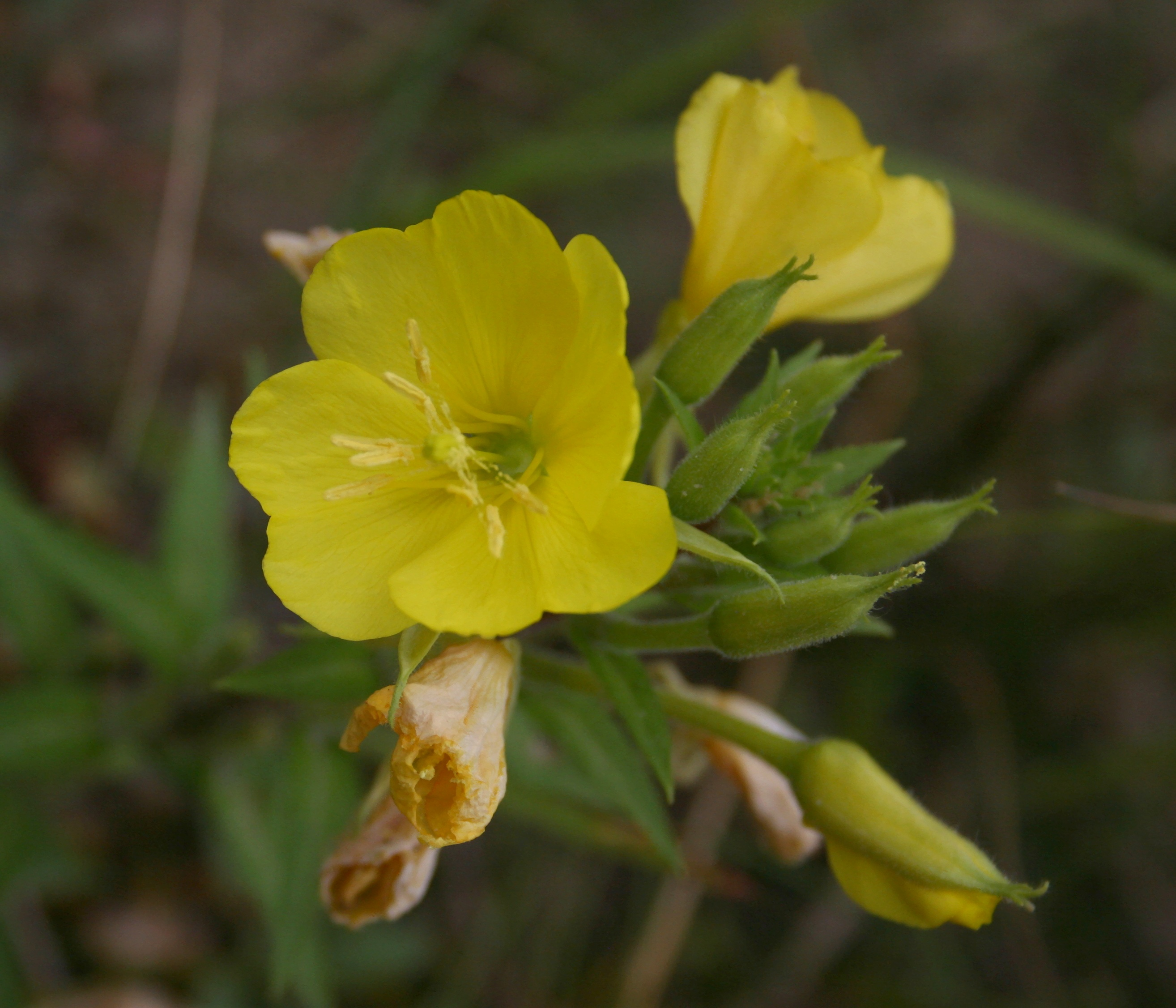 Unidentified Oenothera